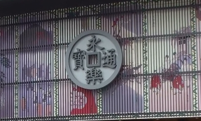 eirakuyafragshop